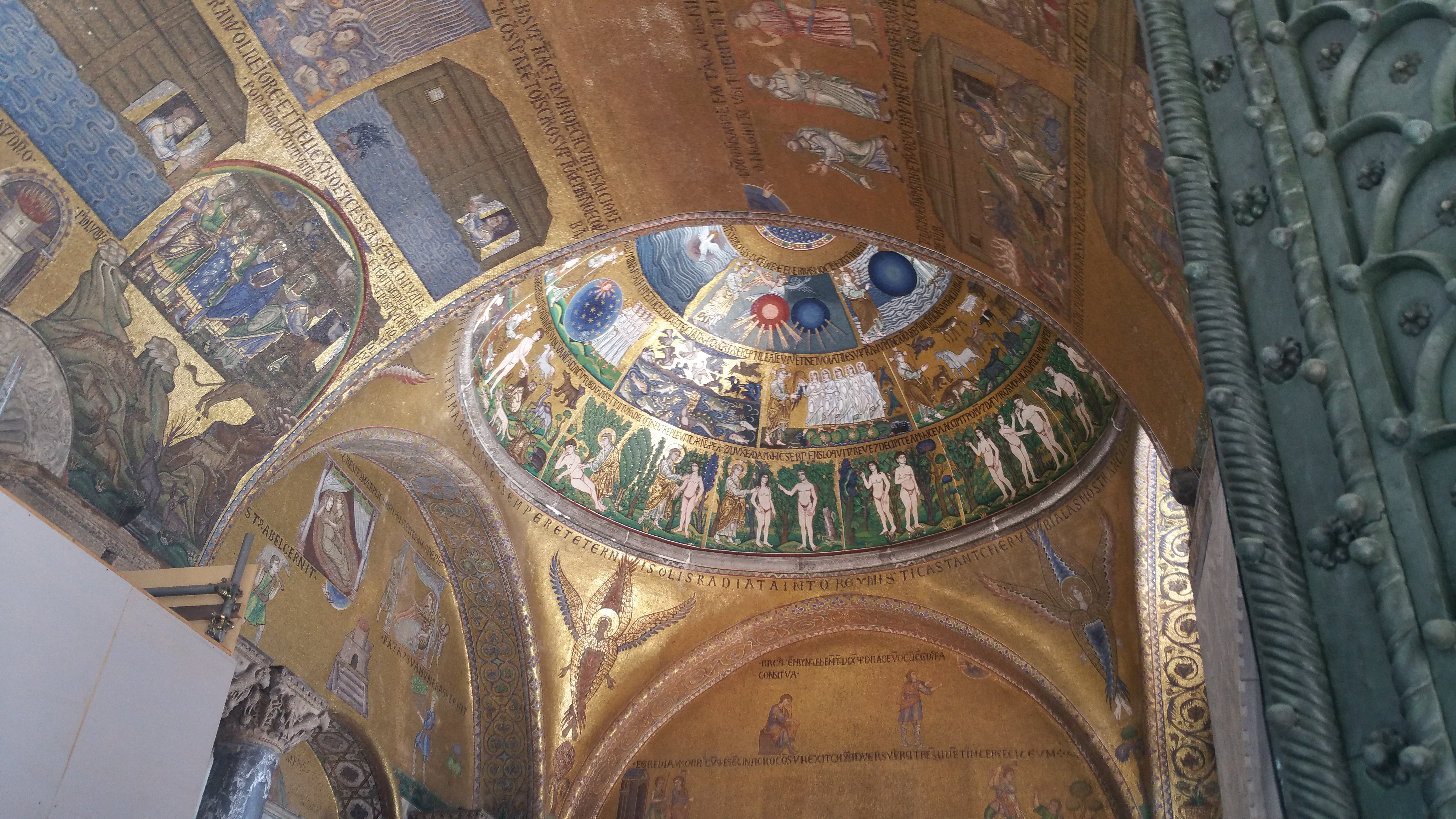 A small part of the golden mosaic that covers the entrance to St. Mark's Basilica, Venice.